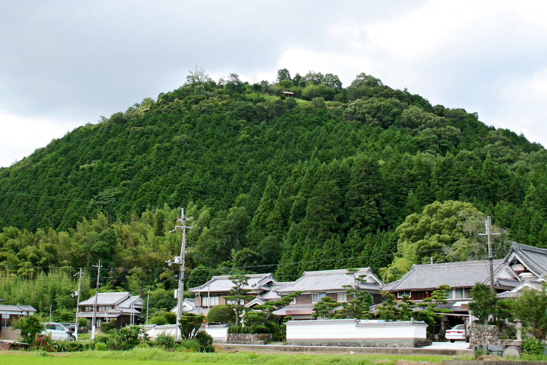 Ruins of Tuneya Castle in Himeji, Hyogo prefecture, Japan.